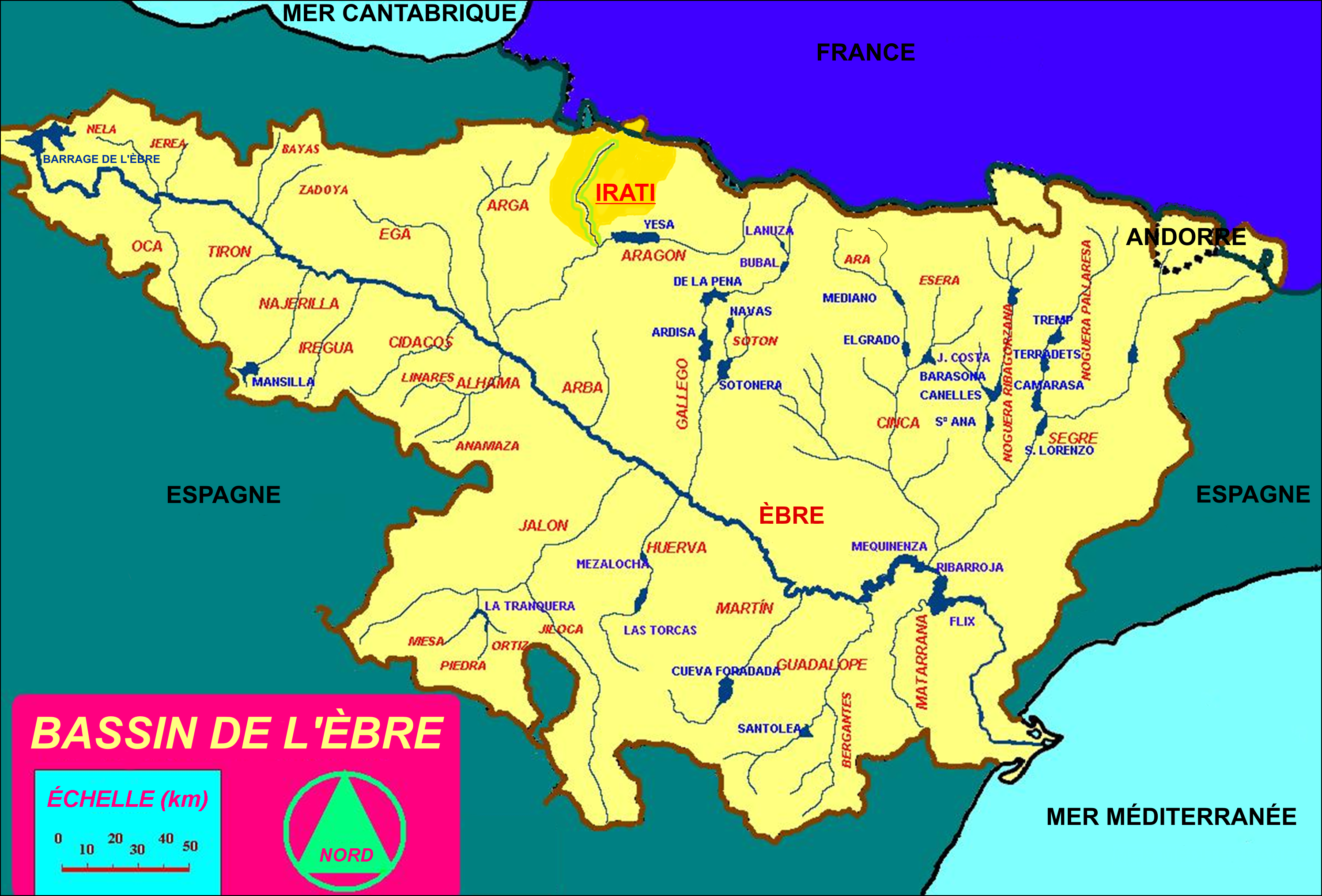 Watershed of the Irati river (Spain)